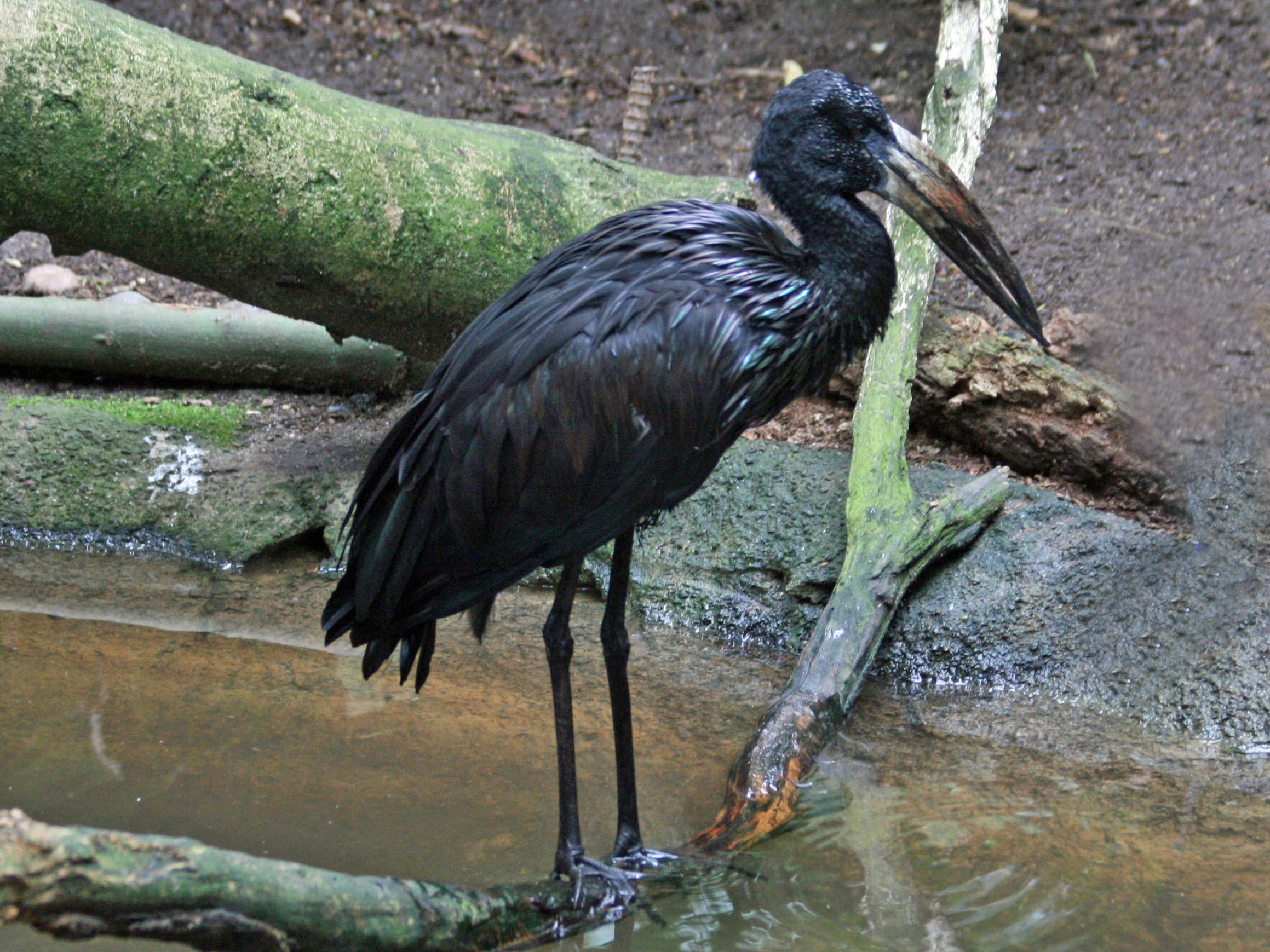 African Openbill Stork (Anastomus lamelligerus) - San Diego Zoo